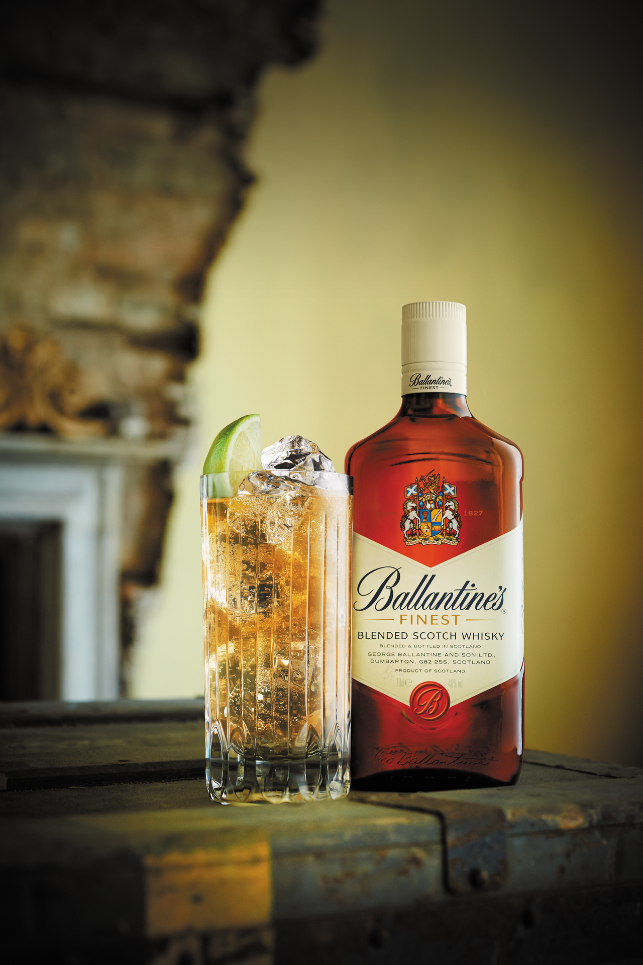 Update